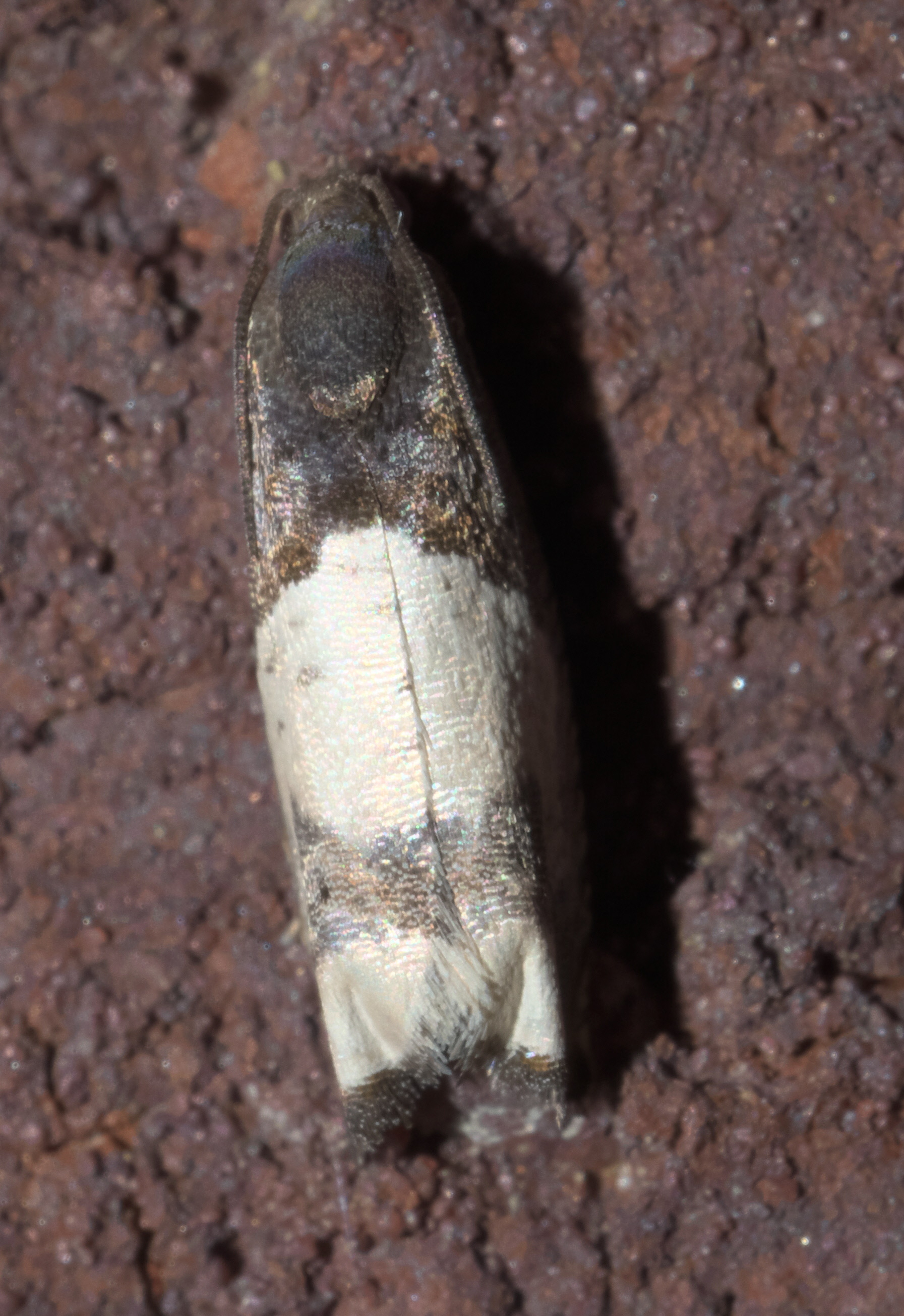 Epiblema scudderiana, Goldenrod Gall Moth - Hodges #3186, ID Confidence: 90